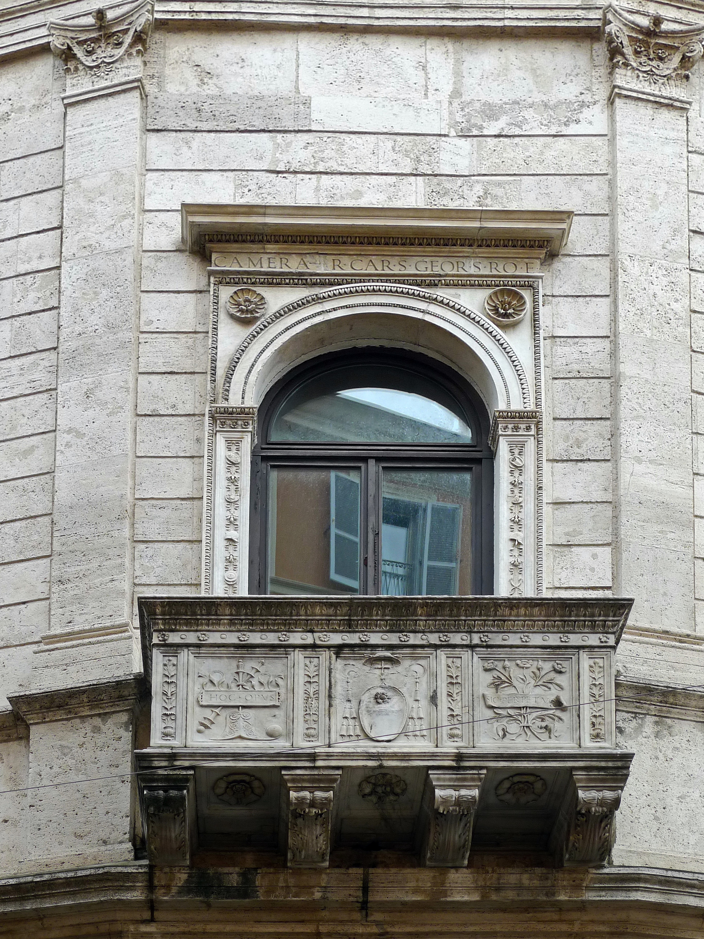 Oriel, Piano Nobile; Palazzo della Cancelleria, Rome